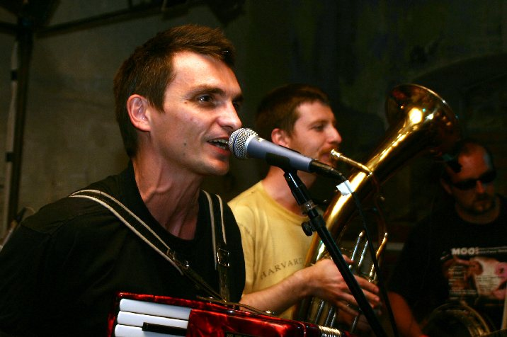 Traband, Tábor, Czech Republic, 24. července 2004